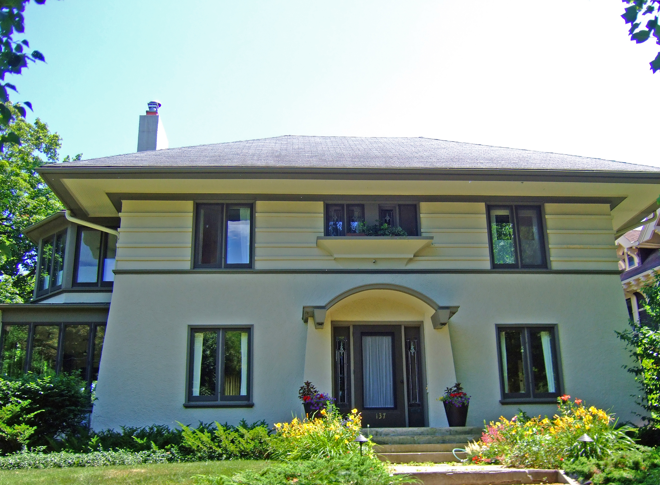 The Edward C. Elliott House, located at 137 N. Prospect Avenue in Madison, Wisconsin, is a Prairie School building designed ca. 1907 by George Washington Maher. It was added to the National Register of Historic Places in 1978.